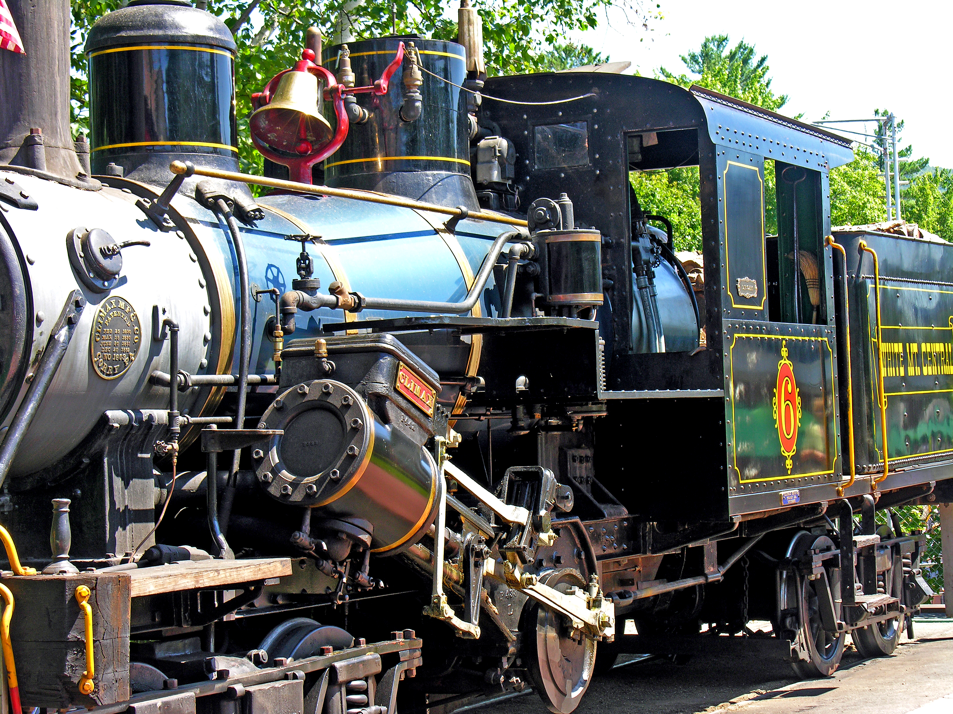 All aboard the White Mountain Central Railroad for a 30-minute 2 1/2 mile excursion with our wood-burning, steam-powered, Climax locomotive. Travel through our 1904 covered bridge across the scenic Pemigewasset River and into Wolfman’s territory. The White Mountain Central Railroad primarily relies on the Climax locomotive, one of only three left in operation worldwide. This Climax was built in 1920 at Corry Pennsylvania by the Climax Manufacturing Company. Patented Feb 25 1890, Builder's number 1603. It was bought brand new by the Beebe River Lumber Co. in Campton NH, about 16 miles south of here. Walter Kessler's father delivered it. They used it for a few years hailing lumber out of the Waterville Valley area. They then sold it to the East Branch and Lincoln Railroad, about a mile from here. Thet used it for a few years hauling lumber and then put it in storage where it sat until 1951, when the Clark's bought it.